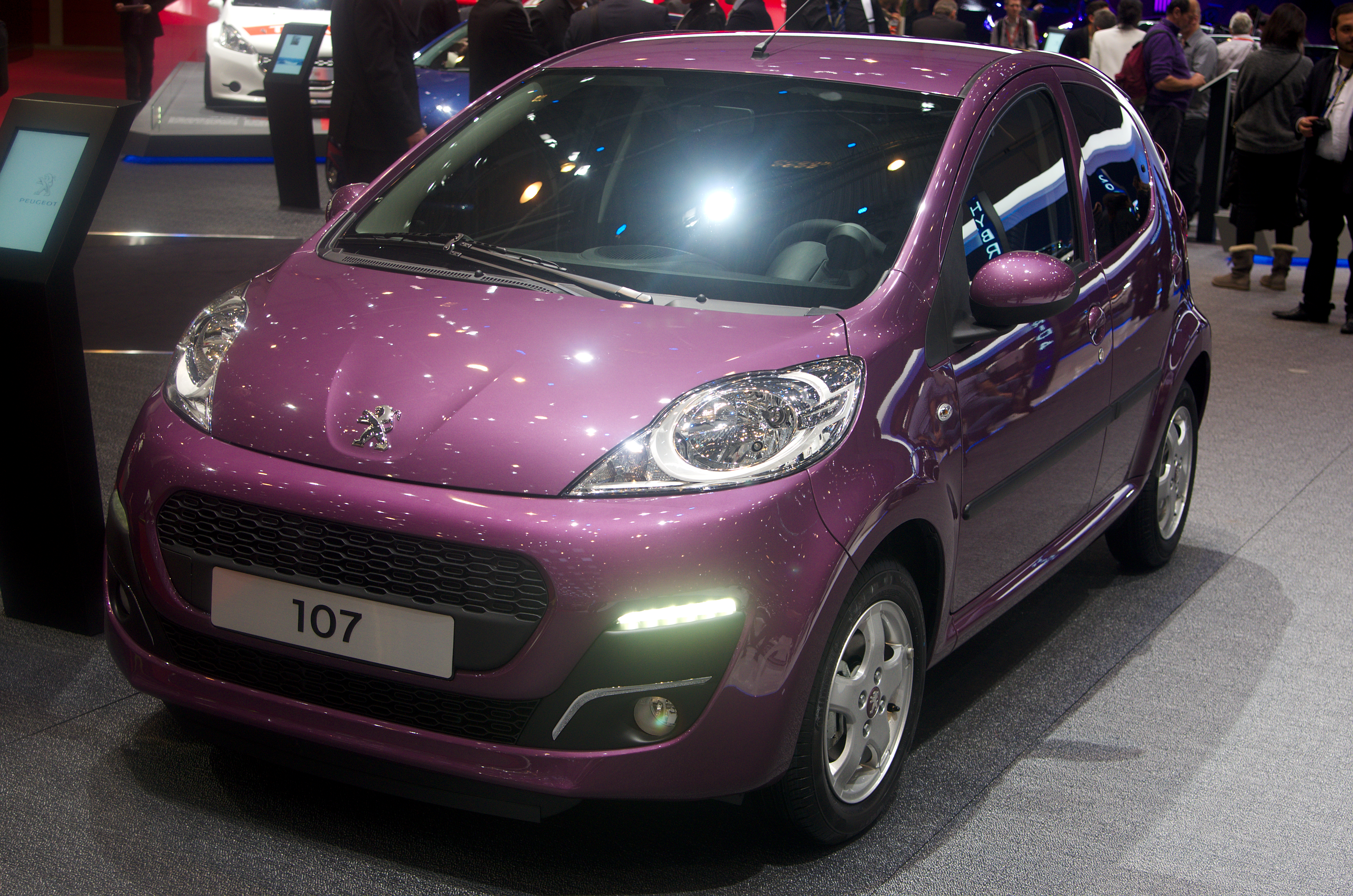 Geneva MotorShow 2013 - Peugeot 107